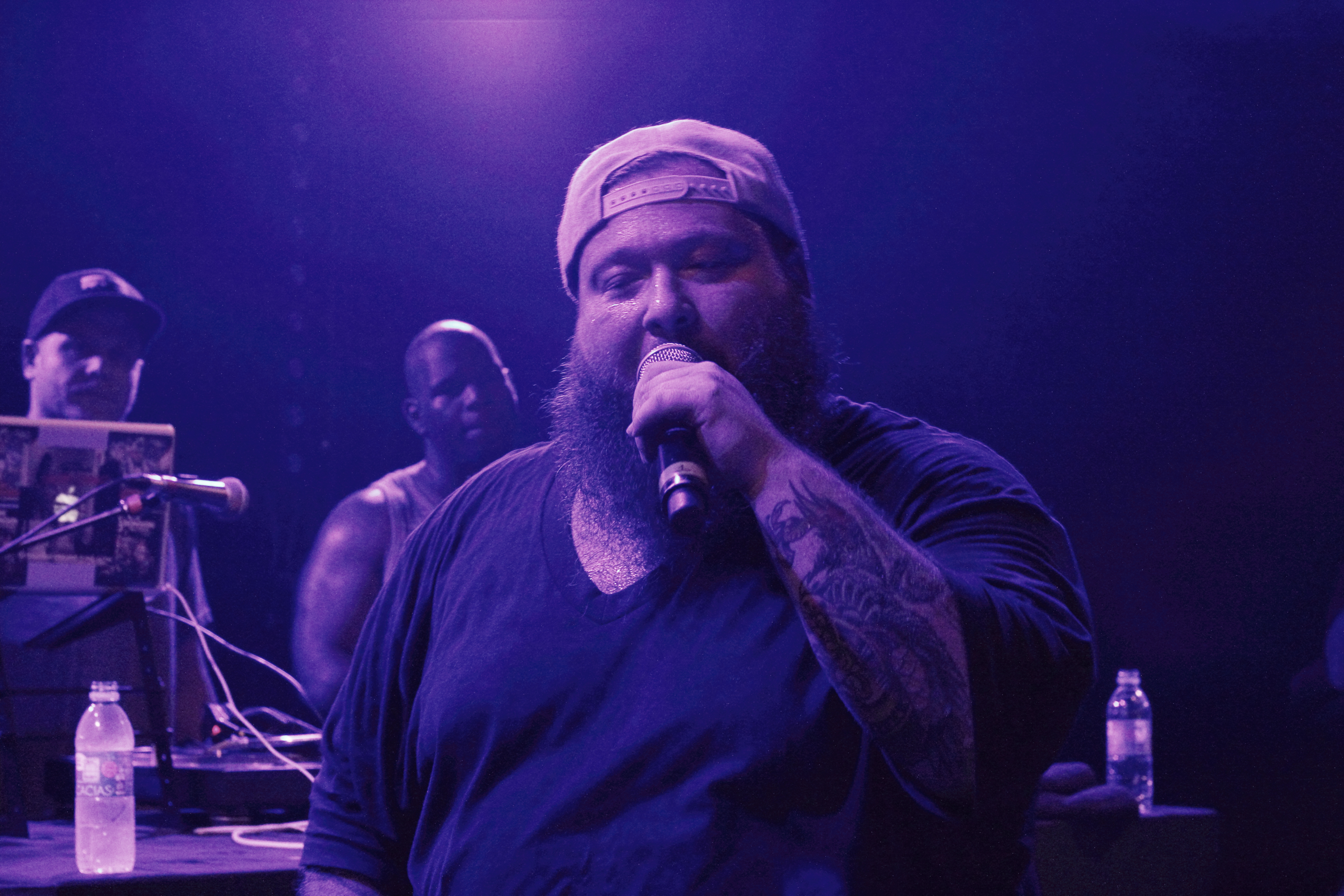 Action Bronson Live in Trabendo, Paris.